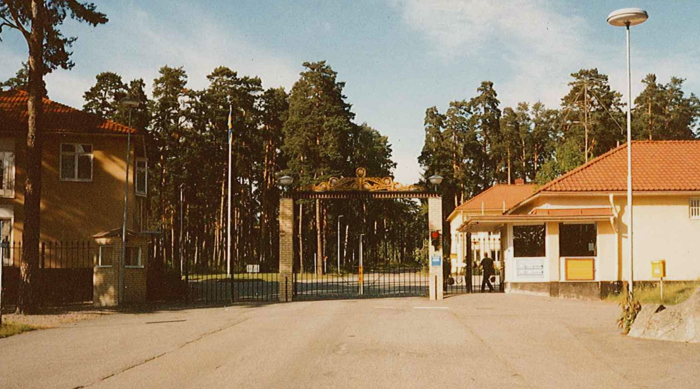 The entrance of Enköpings garnison (the garrison of Enköping), Sweden.